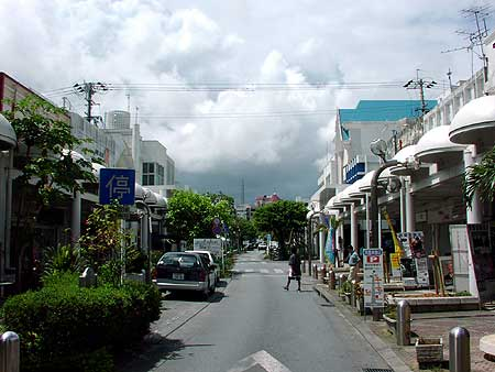 Chuo Park Avenue(BC Street)